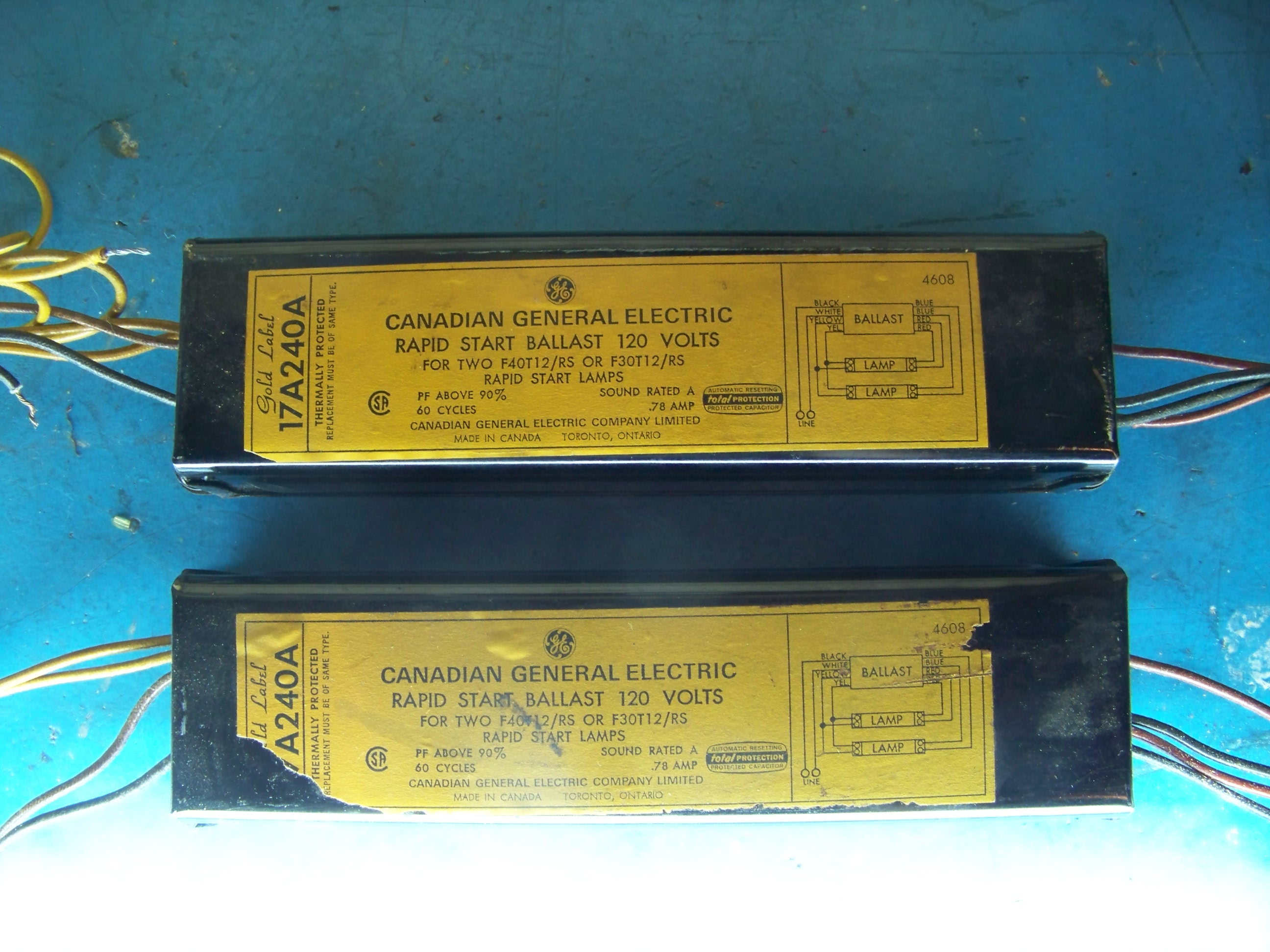 Canadian General Electric rapid start fluorescent ballast.